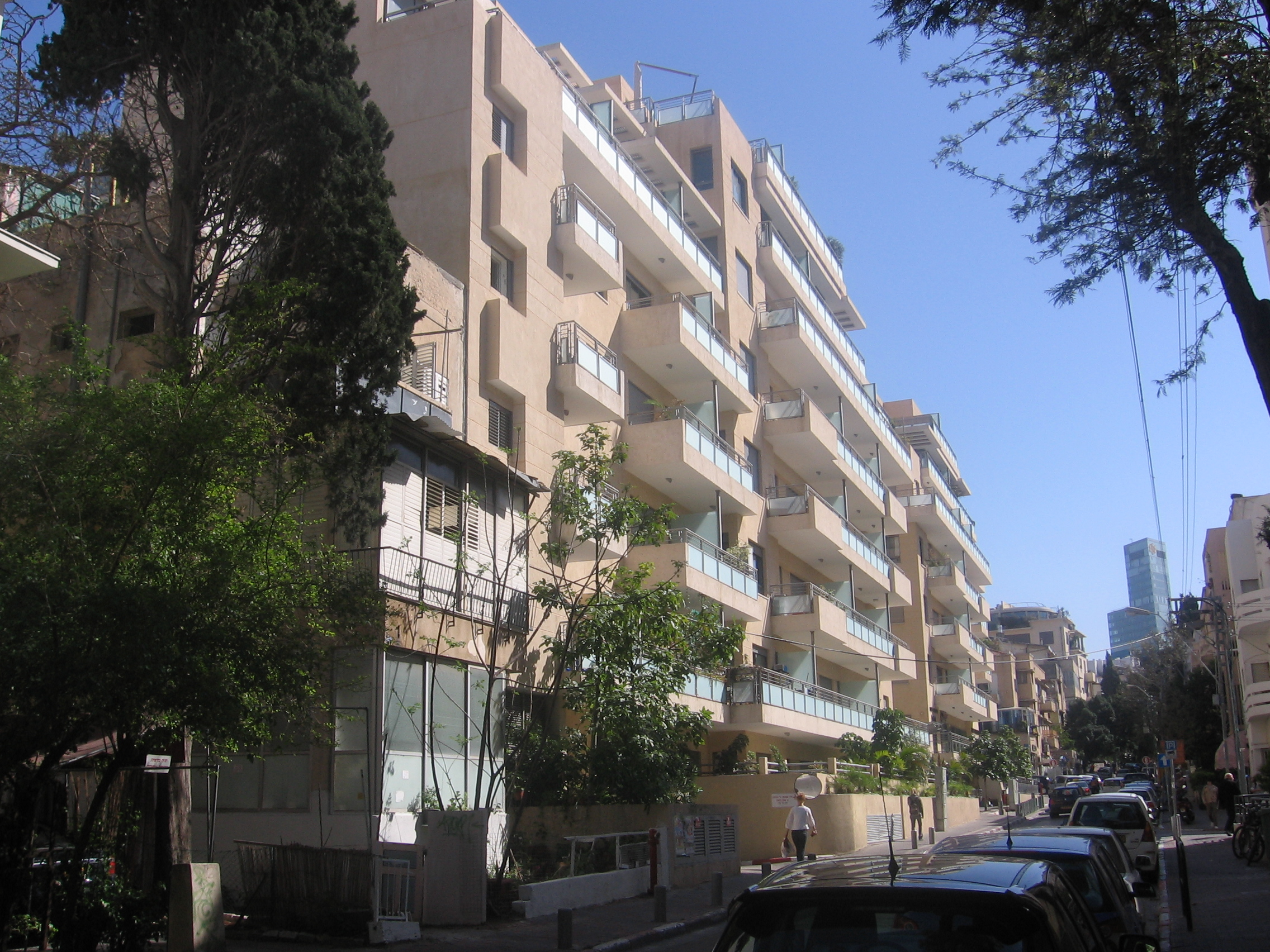 Melchet street in Tel Aviv.